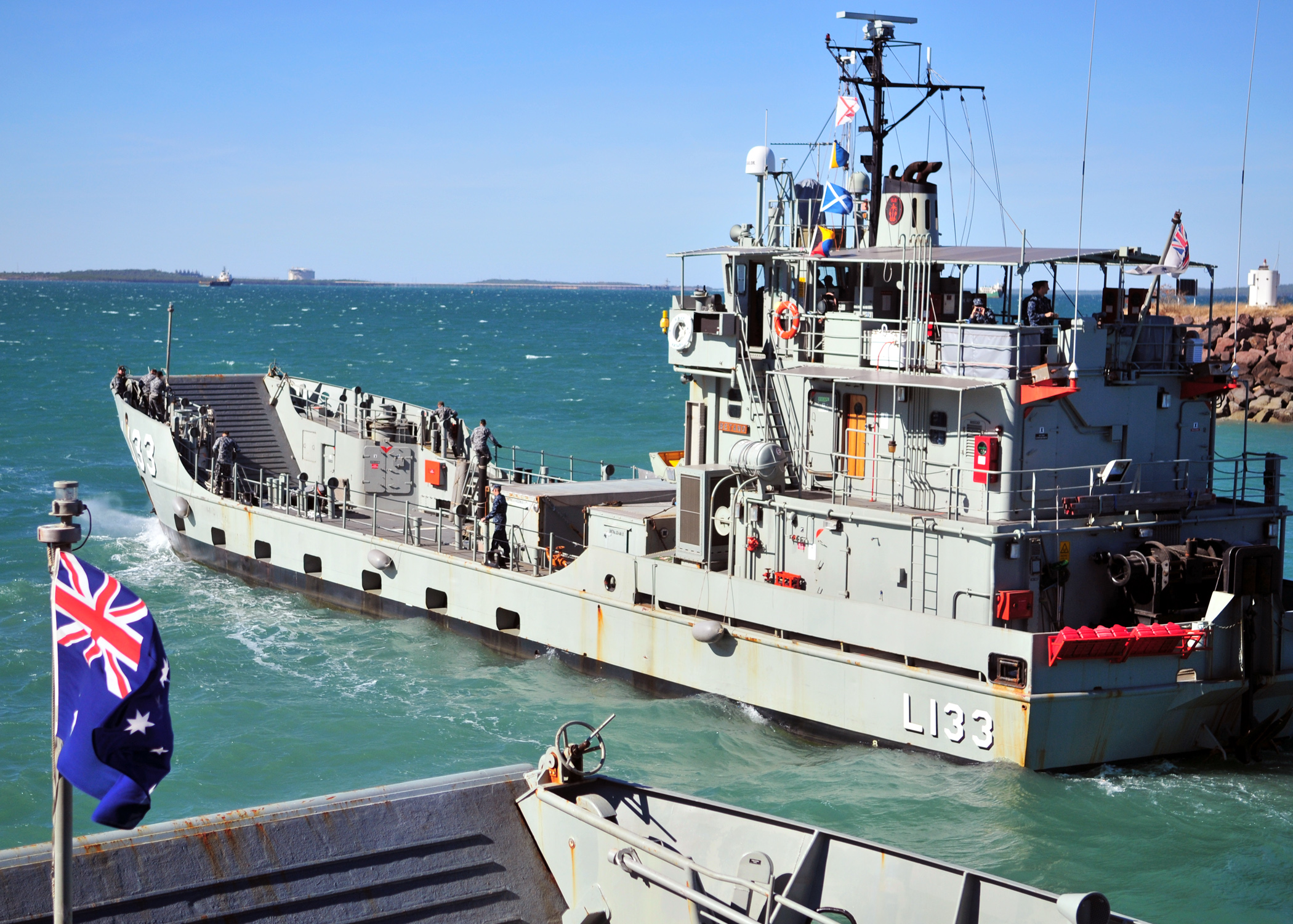 The Royal Australian Navy Class Landing Craft Heavy (LCH) HMAS Betano departs Darwin headed for Timor-Leste, the next stop on Pacific Partnership 2011. Pacific Partnership 2011 is a five-month humanitarian assistance initiative that will make port visits to Tonga, Vanuatu, Papua New Guinea, Timor-Leste and The Federated States of Micronesia.